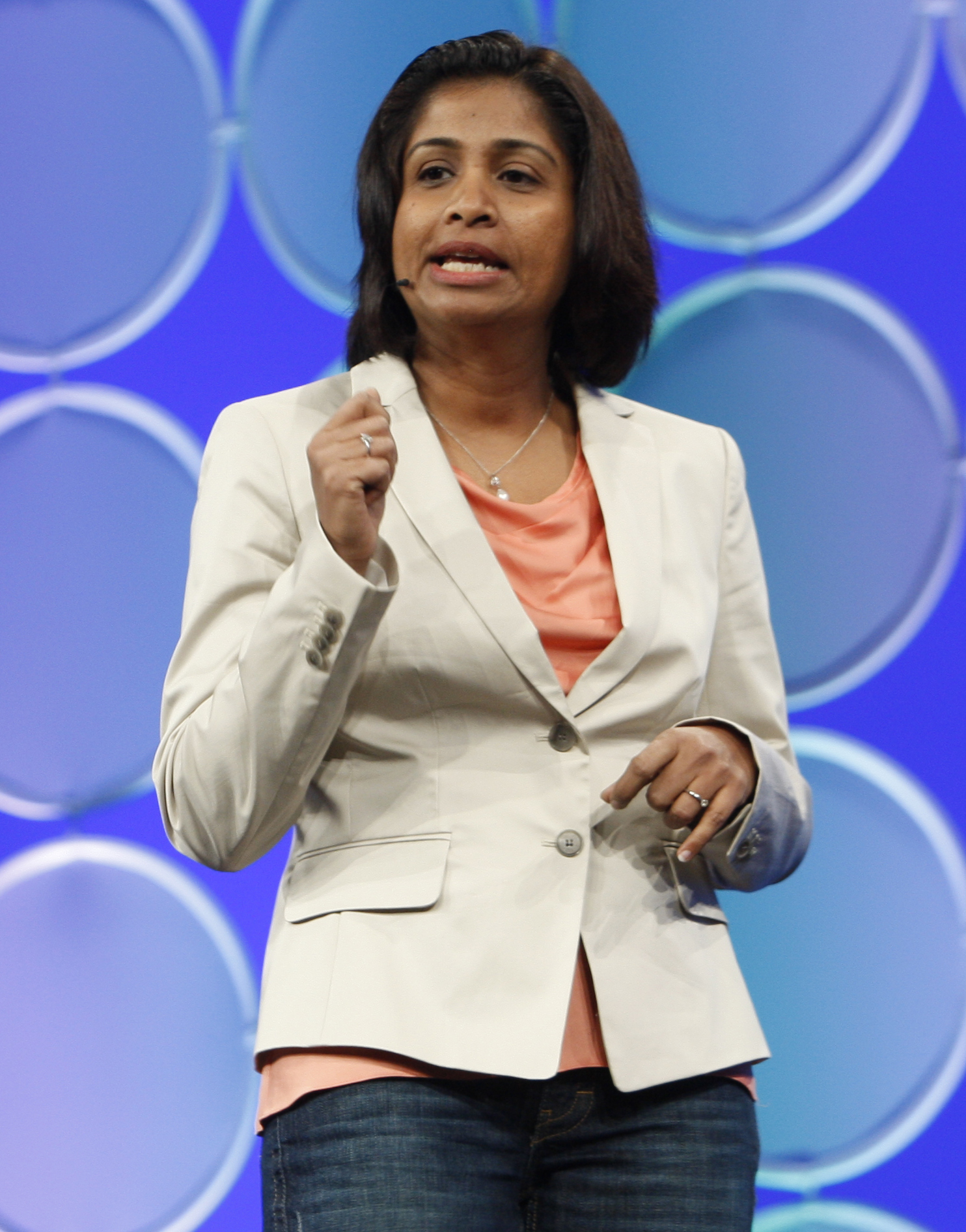 Raji Arasu, Vice President of Technology from eBay, speaks during the first keynote from MIX10.